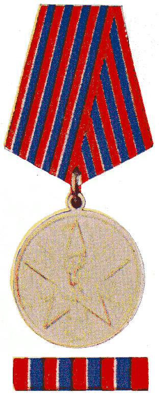 Medal of the merits for the people